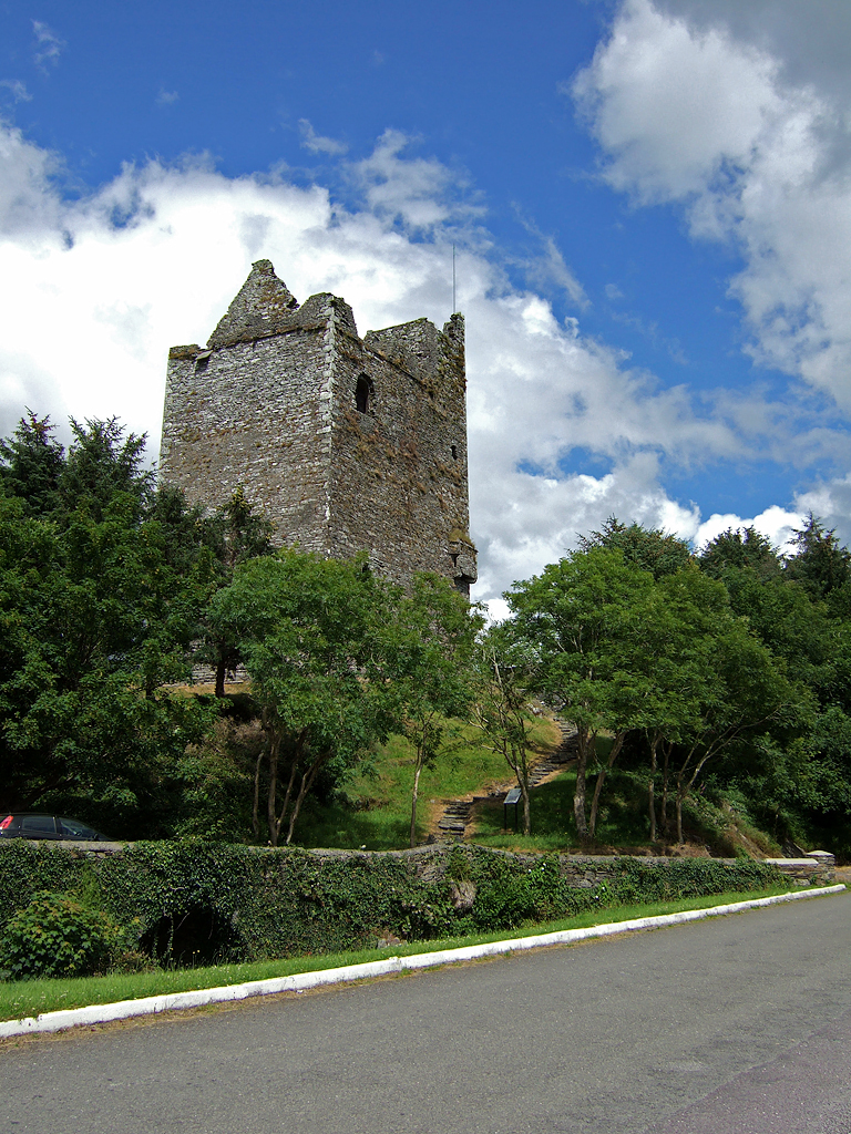 Ballynacarriga or Ballinacarriga Castle (Beal Ath na Carraig) was built in 1585 by Randal Hurley (Muirhily). Situated overlooking Ballynacarriga Lough, it is a large four storey tower house, whose walls are over 6 feet thick. The castle is in a good state of preservation, largely because up to the C19 it also served as a parish church.